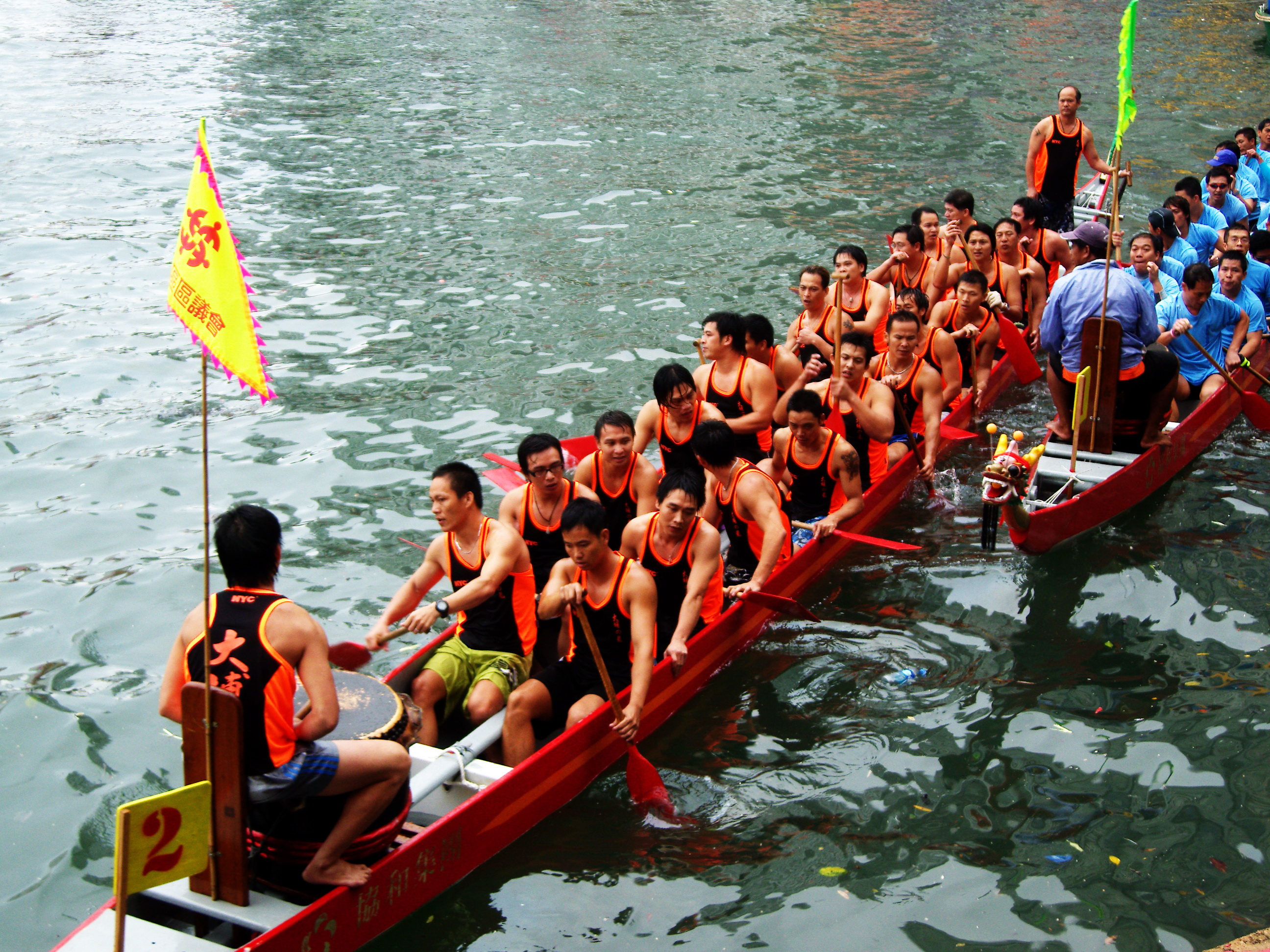 Eastern District Dragon Boat Race held in Wan Chai, Hong Kong.